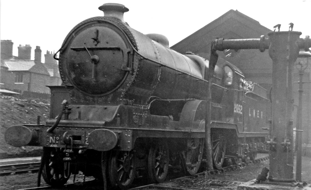 Northwich Locomotive Depot, with an ex-Great Central 'Director' 4-4-0, Ex-GC Robinson D10 'Director' 4-4-0 No. 2652 'Edwin A. Beazley' stands beside a water-column. In 1947 Northwich Depot, situated next to the Cheshire Lines (CLC) station, had an allocation of 32 locomotives (all LNER). After Nationalisation it was taken over by the London Midland Region (Longsight Division, coded 9G) and in 1954 its allocation comprised 21 LMS and 13 LNE locomotives. It closed to steam on 4/3/68 but serviced Diesel locomotives until 1987. The 'Directors' had formerly worked expresses on the Great Central main lines, but by 1947 were relegated to secondray services, such as Manchester (Central) - Chester (Northgate).